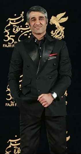 Day 4 of 35th Fajr International Film Festival at Mellat Pardis